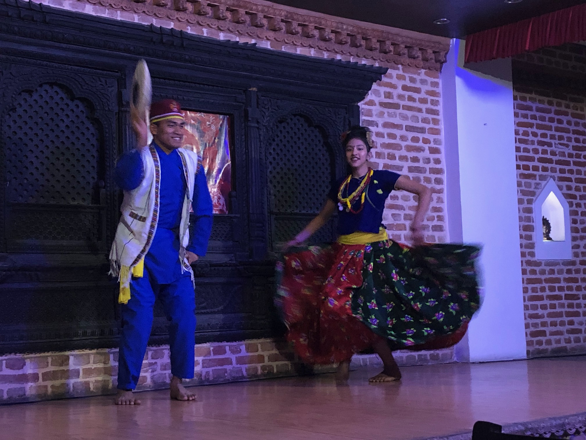 This photo has been taken in the country: Nepal